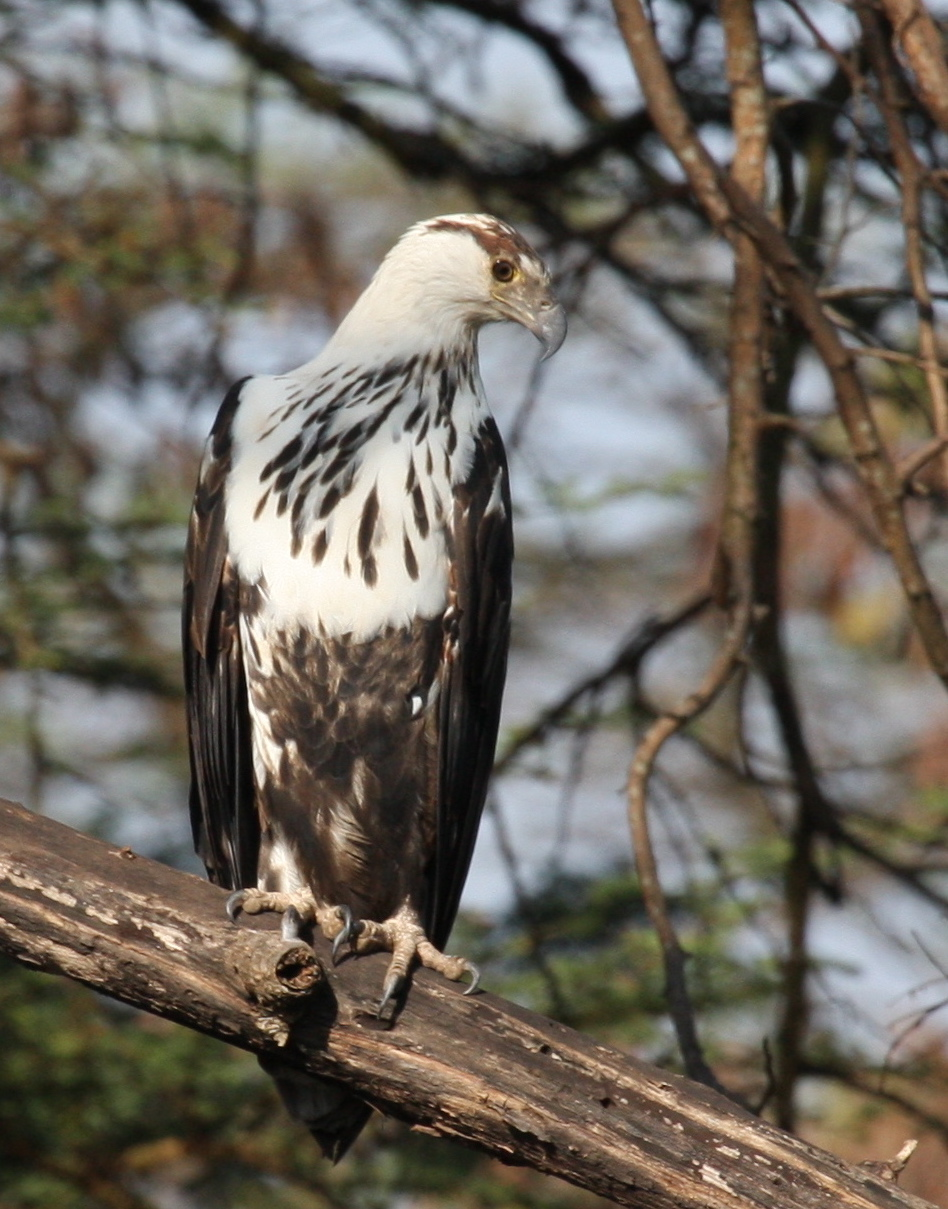 A juvenile African fish eagle near Grumeti, Serengeti, Tanzania. Its plumage indicates that it is a third year juvenile.